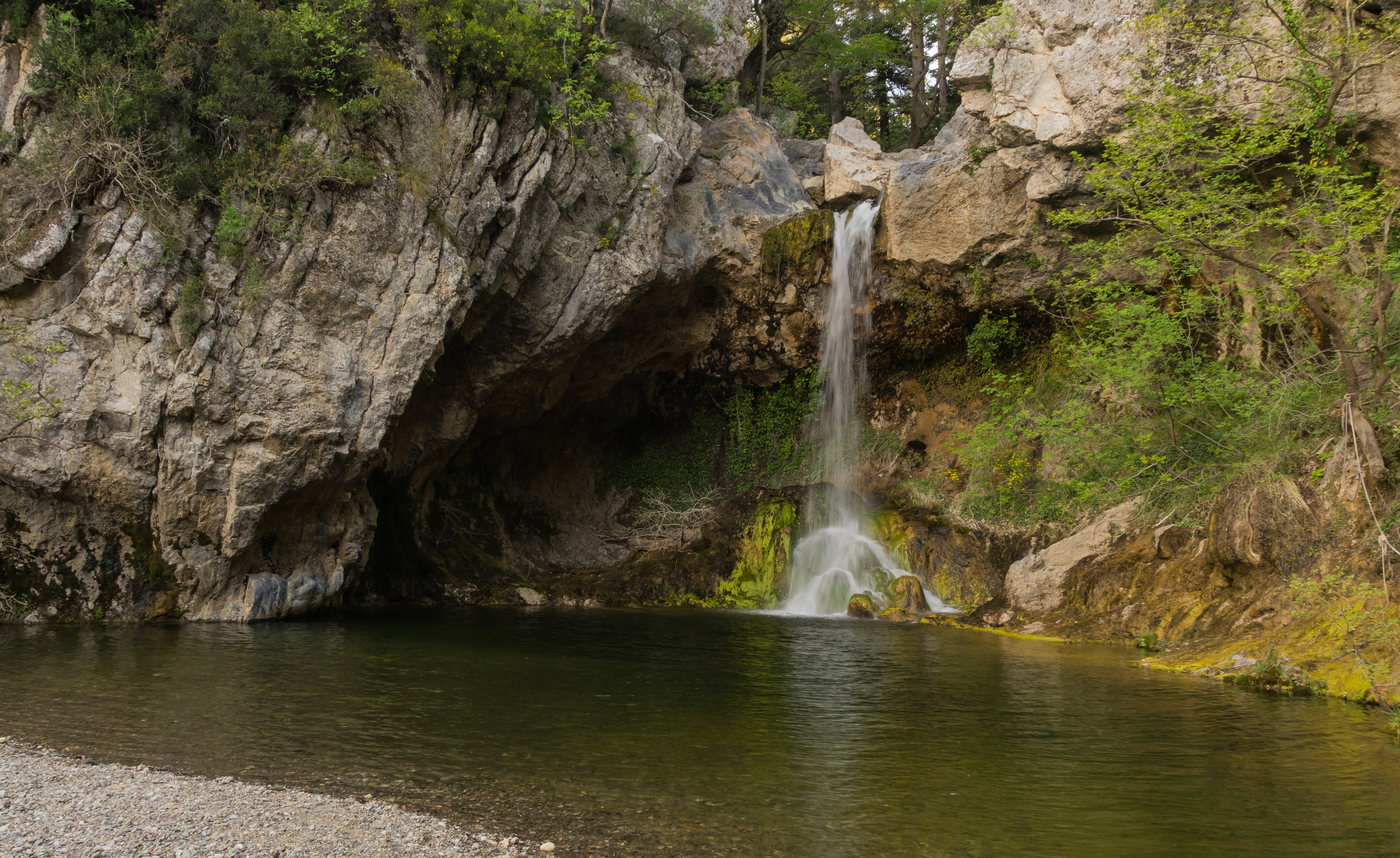 Drymona waterfall and pool, north Euboea, Greece.